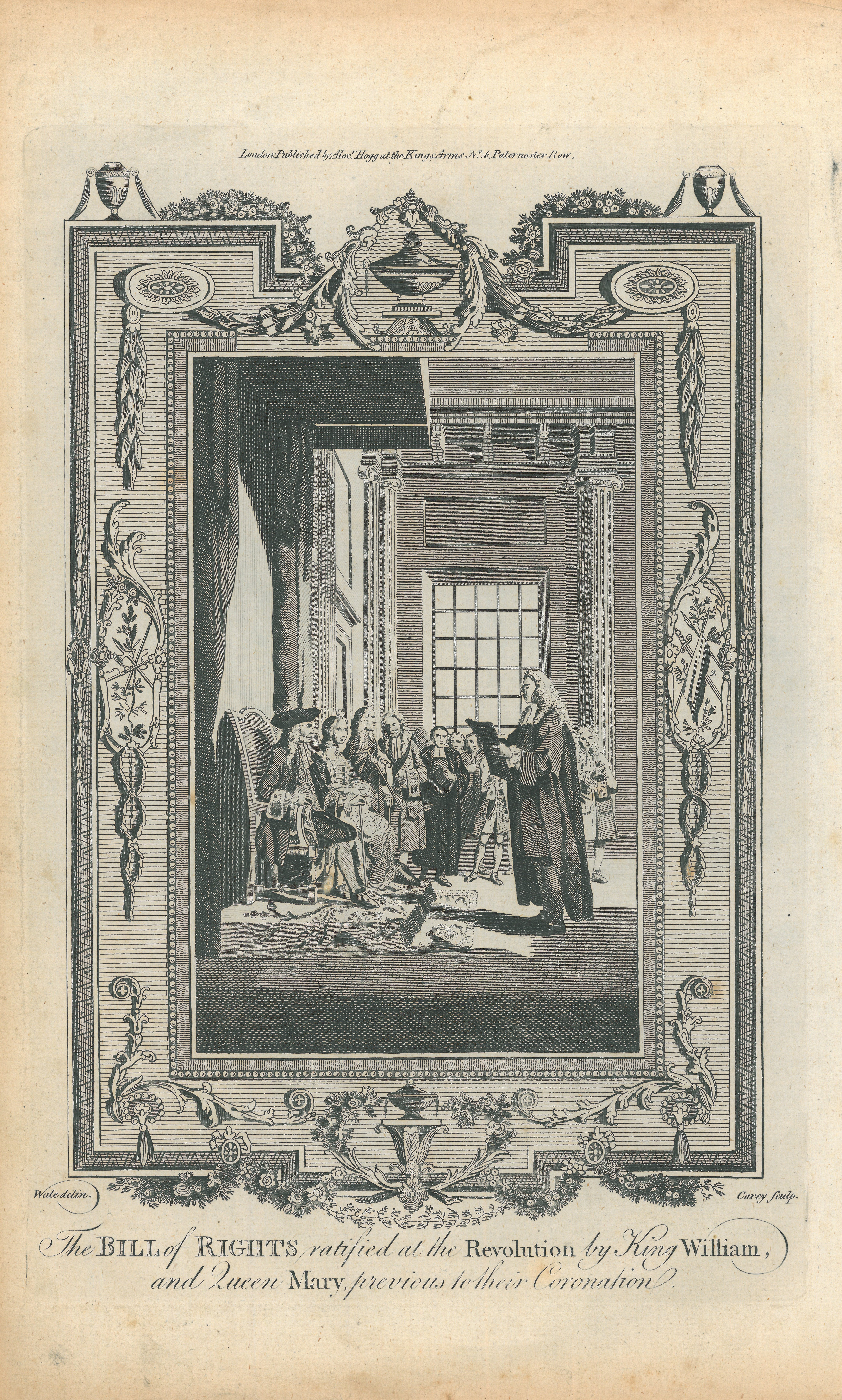 An engraving showing the Bill of Rights 1689 (1 William & Mary Session 2, chapter 2) being presented to William and Mary (William III of England and Mary II of England) following the Glorious Revolution.